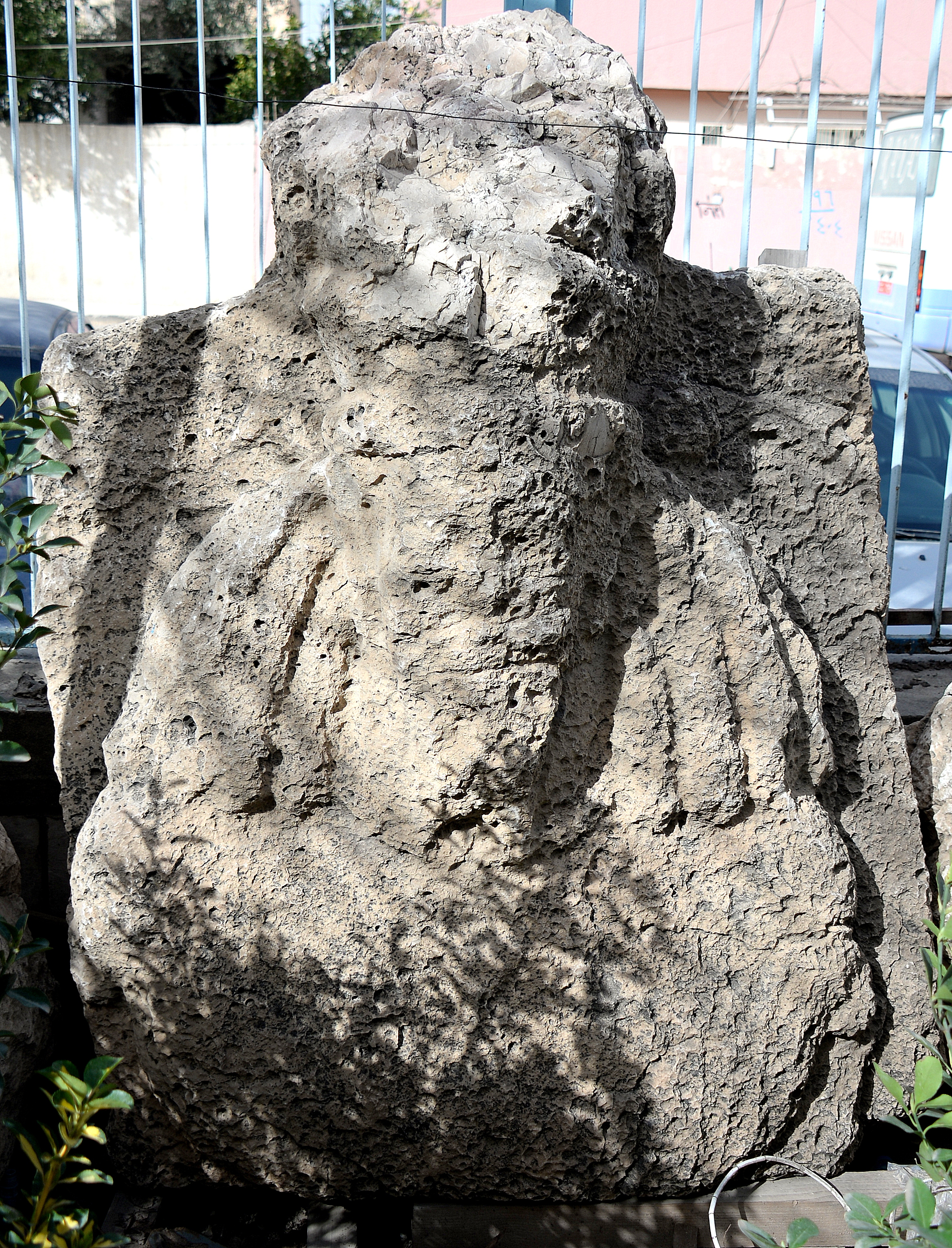 One of the busts of the Sassanian king Narseh (Narses), circa 293 CE, once decorated of the walls of the Paikuli tower, near Barkal Village, Paikuli Pass. The bust is in the Sulaymaniyah Museum but it is not on display. Exclusive photo.